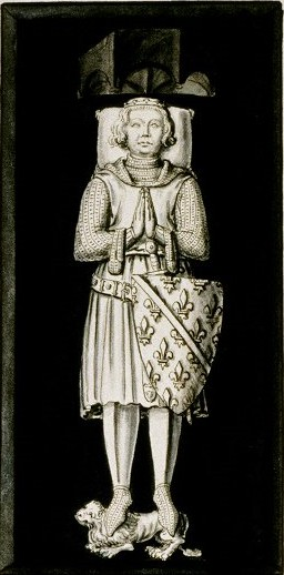 Louis I of Bourbon